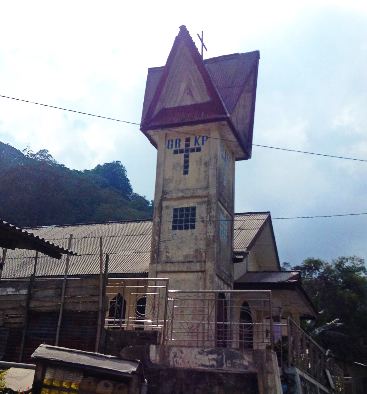 GBKP Rg. Semangat Gunung, Klasis Berastagi, Church in Semangat Gunung, Merdeka, Karo